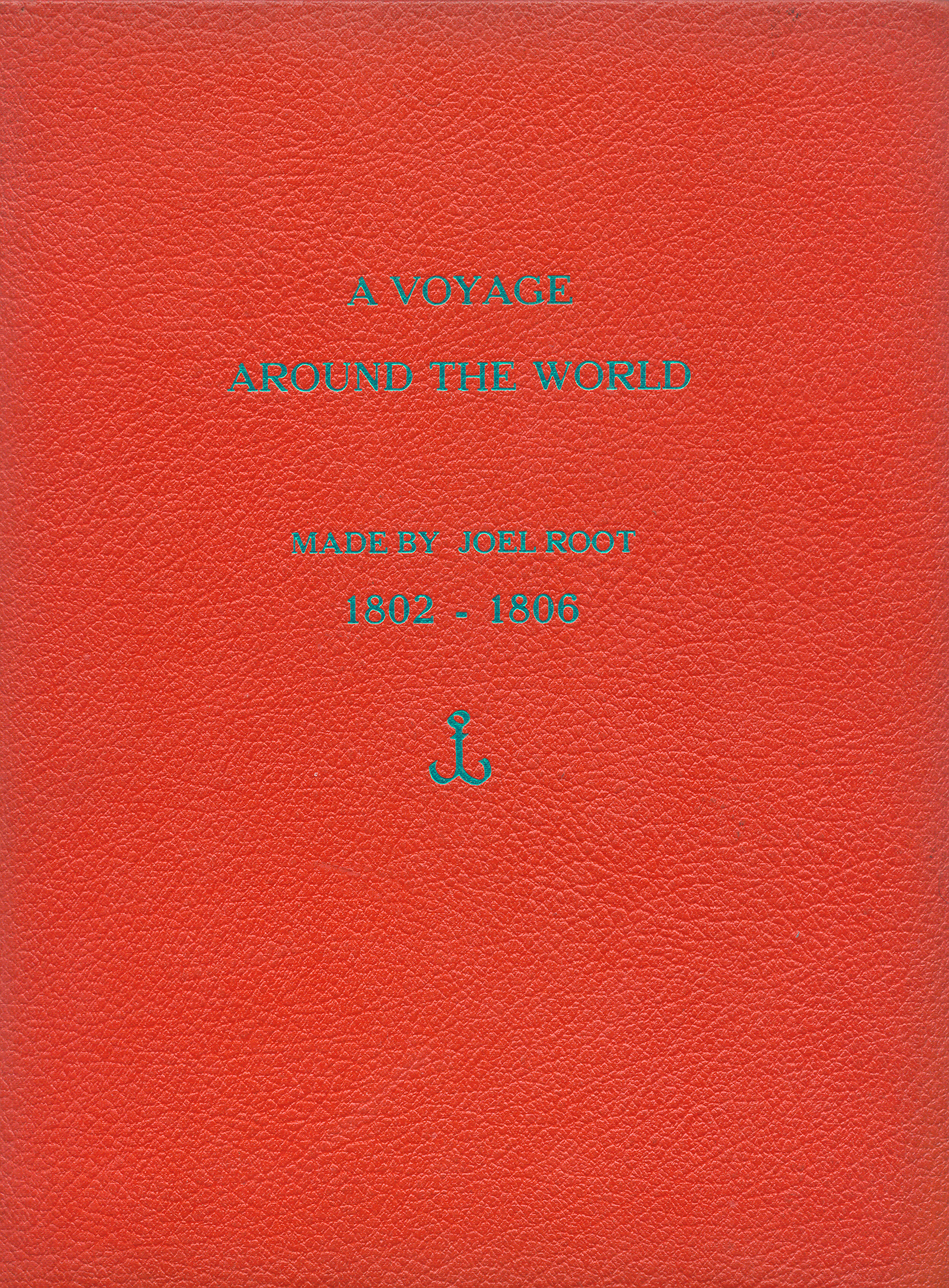 Cover of the narrative of Joel Root--one of 18 printed privately in 1960 by Alice B. Hawkes for members of her family who are descendants of Joel Root.